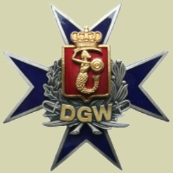 Warsaw Garnisson Command logo